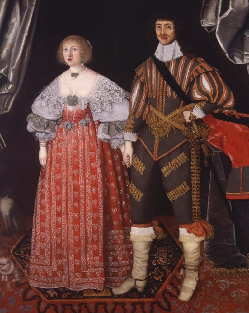 Thomas and Florence Smyth 1627, owners of Ashton Court, Bristol